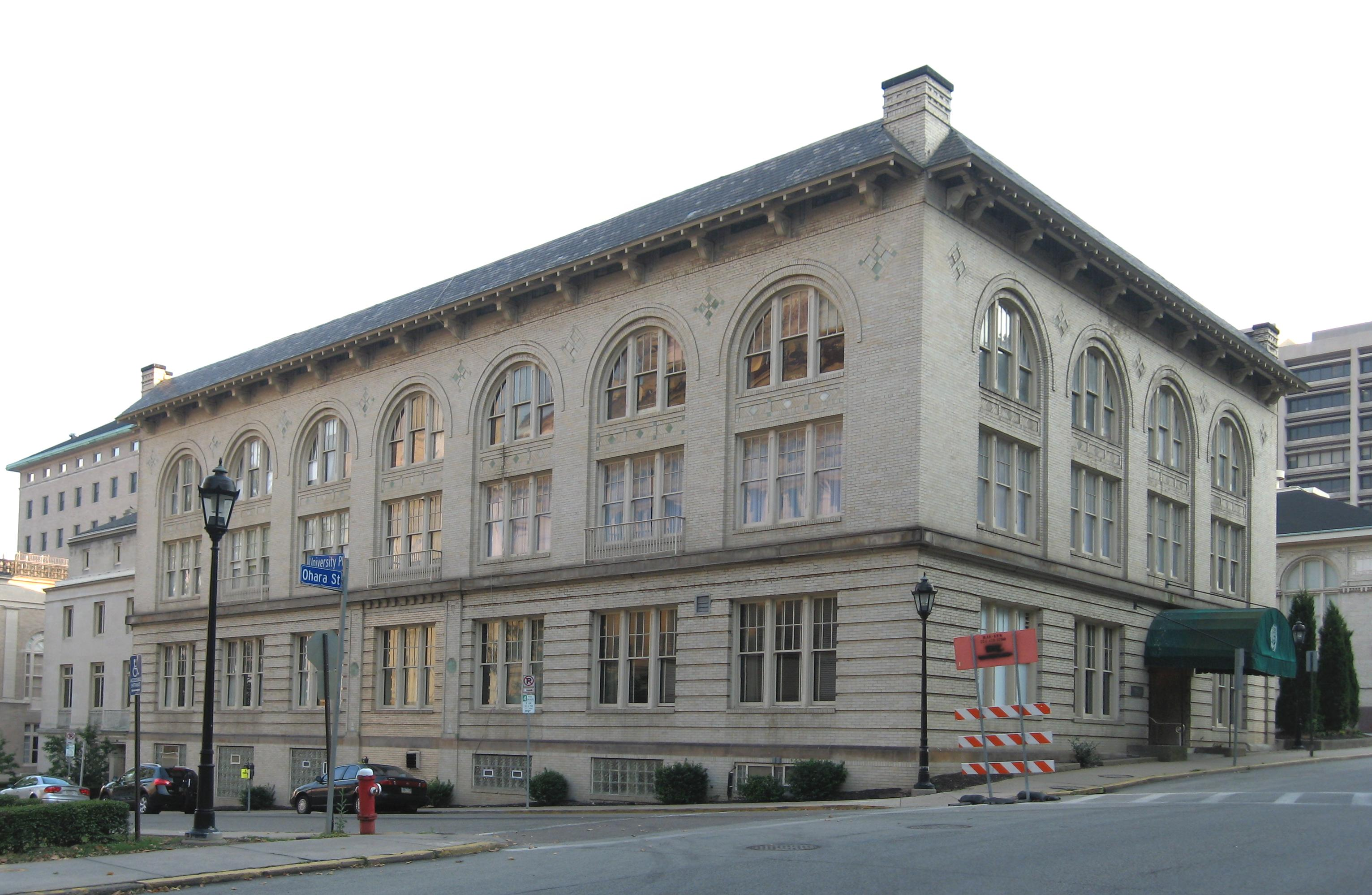 The former Concordia Club, a former Jewish social club, in Pittsburgh, now owned by the University of Pittsburgh This image was created with Hugin. 40°26′41.1″N 79°57′25.9″W / 40.44475°N 79.957194°W